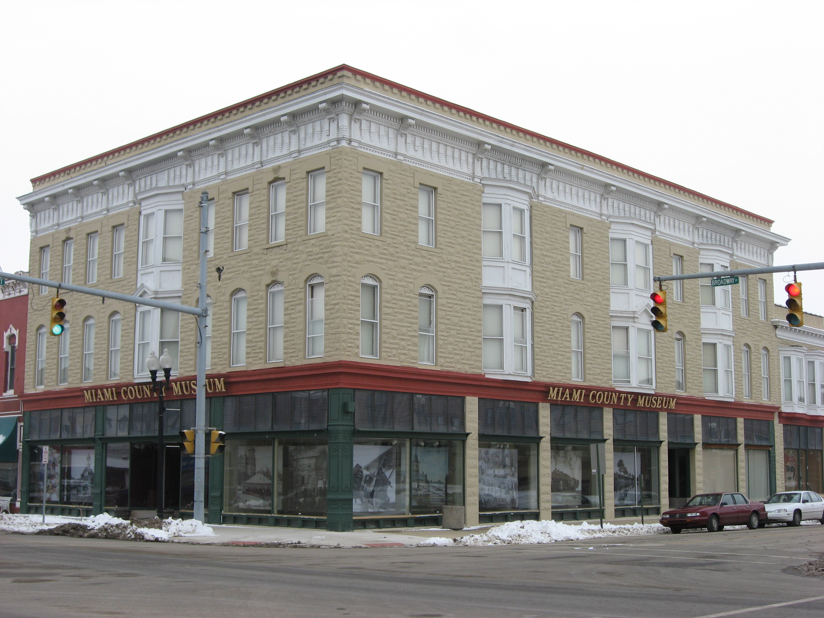 Front and southern side of the Brownell Block/Senger Dry Goods Company Building, located at 51 North Broadway in Peru, Indiana, United States. Built in 1883, it is listed on the National Register of Historic Places.